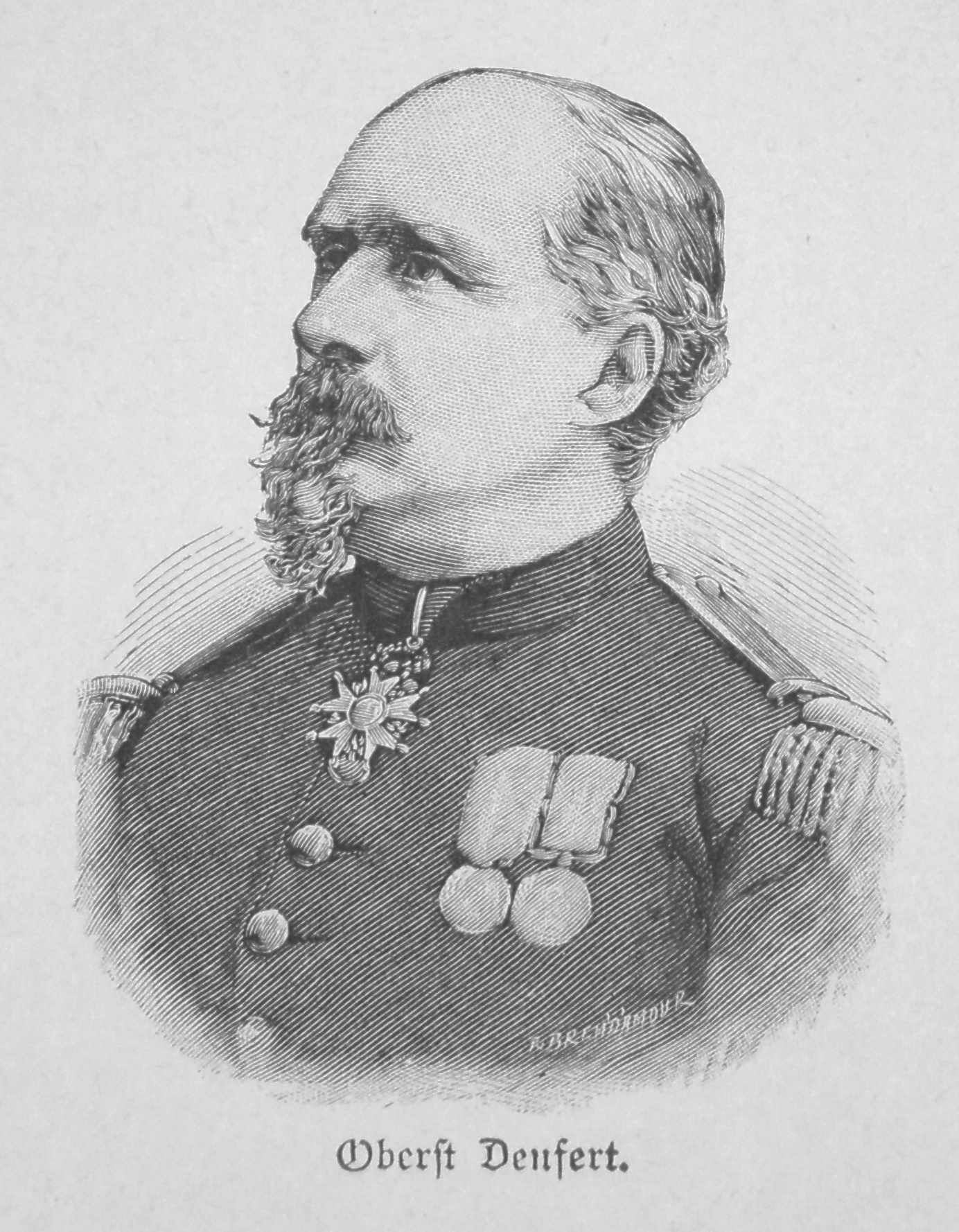 colonel Denfert